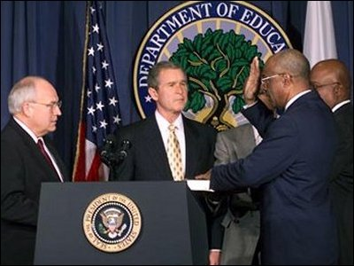 Secretary Paige's swearing-in ceremony as Secretary of Education, attended by Vice President Cheney, President Bush, Secretary Paige, his son, and his brother.